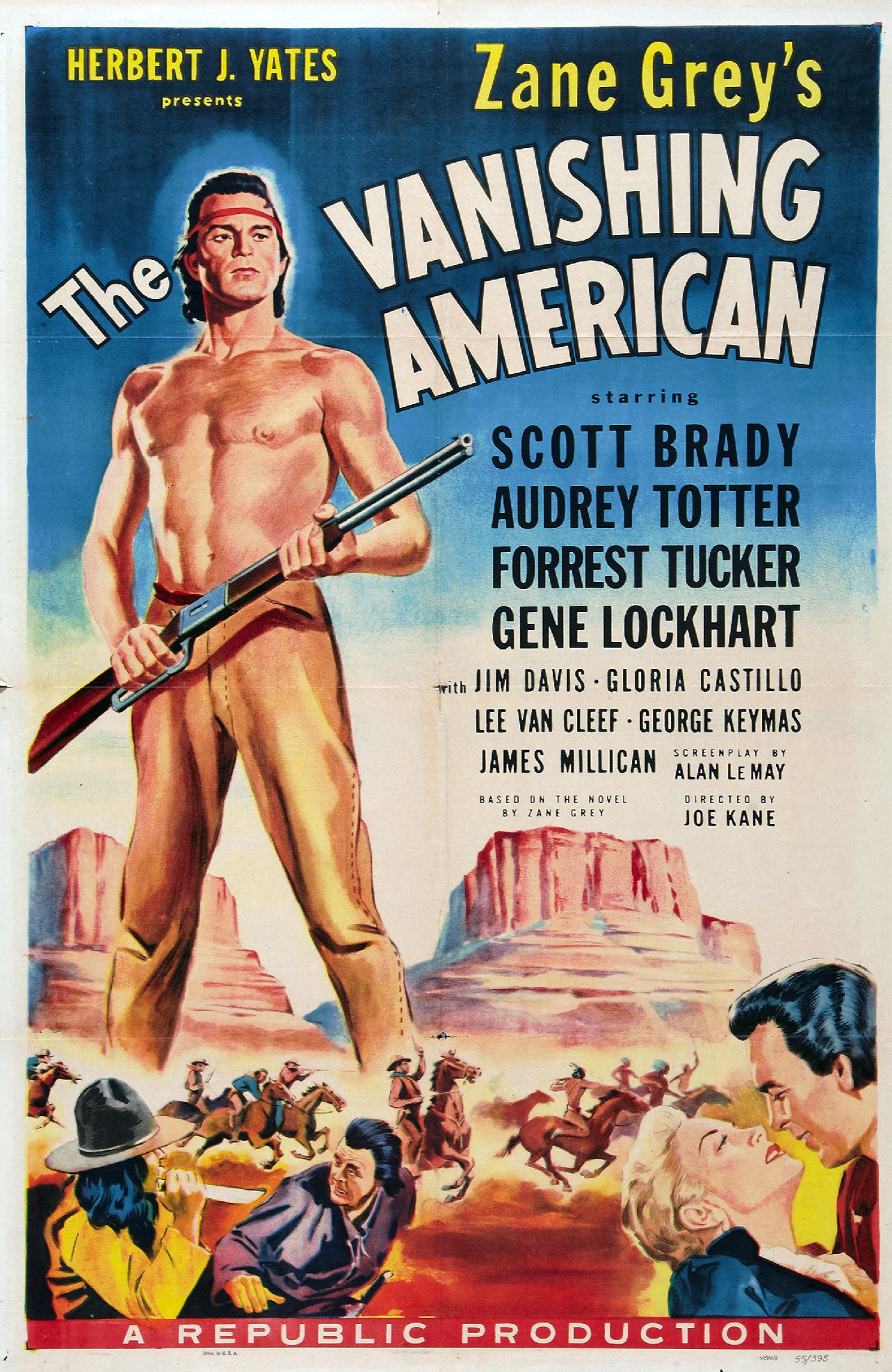 Poster for the 1955 film The Vanishing American. There are no copyright marks. At bottom is Litho in USA and 48169 55/395.